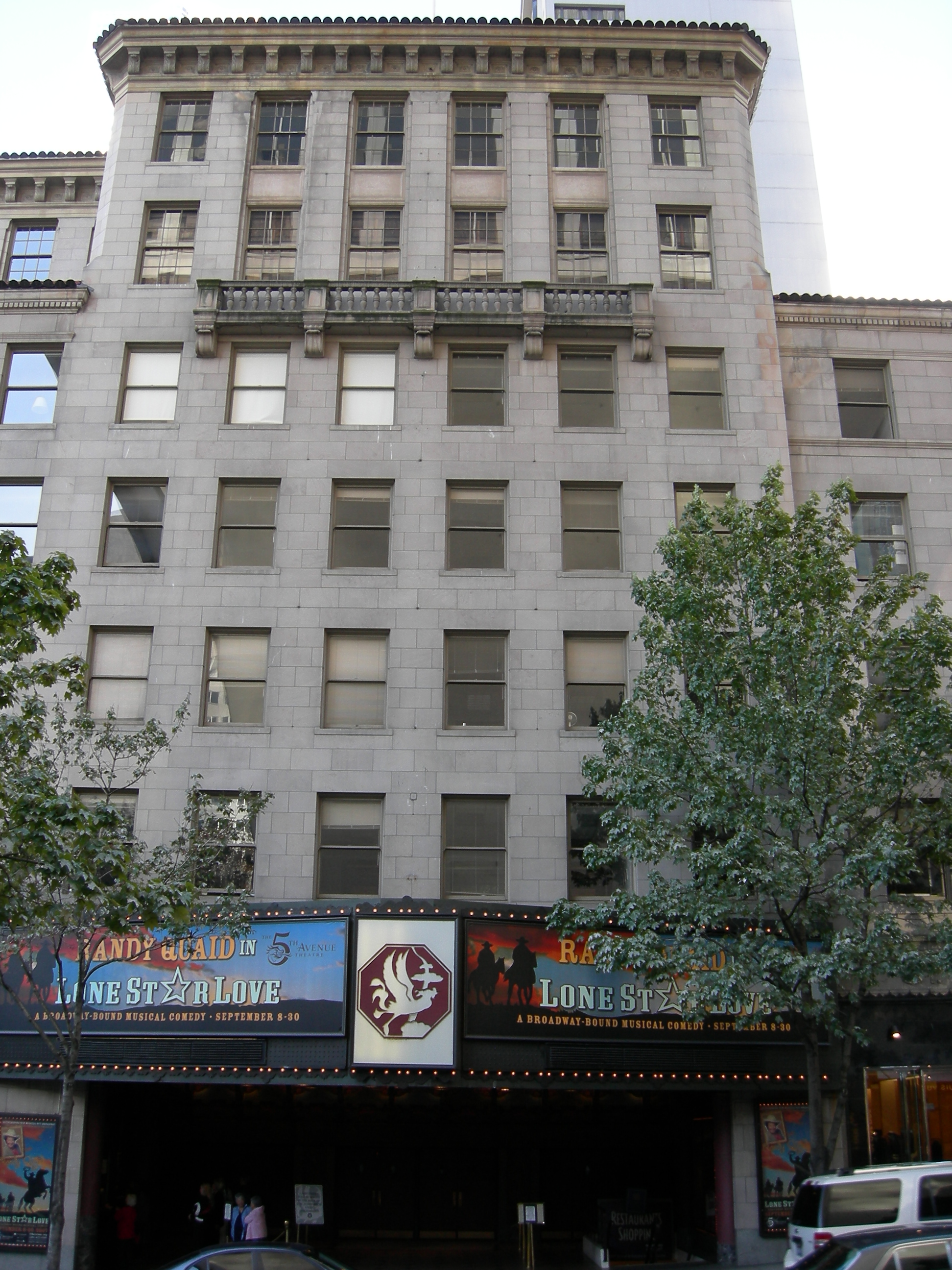 Skinner Building (which includes the Fifth Avenue Theater), 1300–1334 Fifth Ave., Seattle, Washington, USA. Listed in the National Register of Historic Places, ID #78002756.